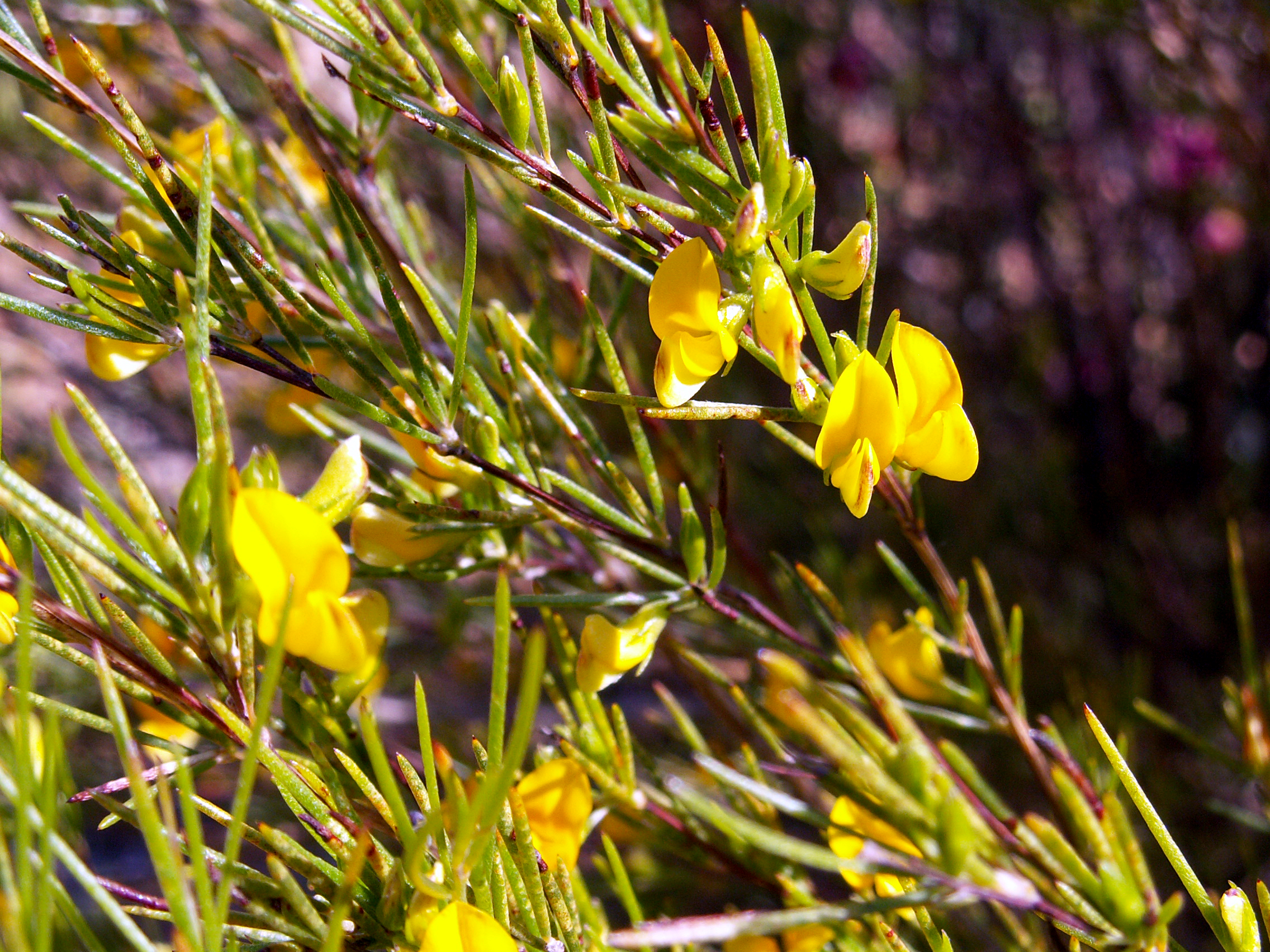 Rooibos, Aspalathus linearis (N.L.Burm.) R.Dahlgr., Clanwilliam, Western Cape, South Africa